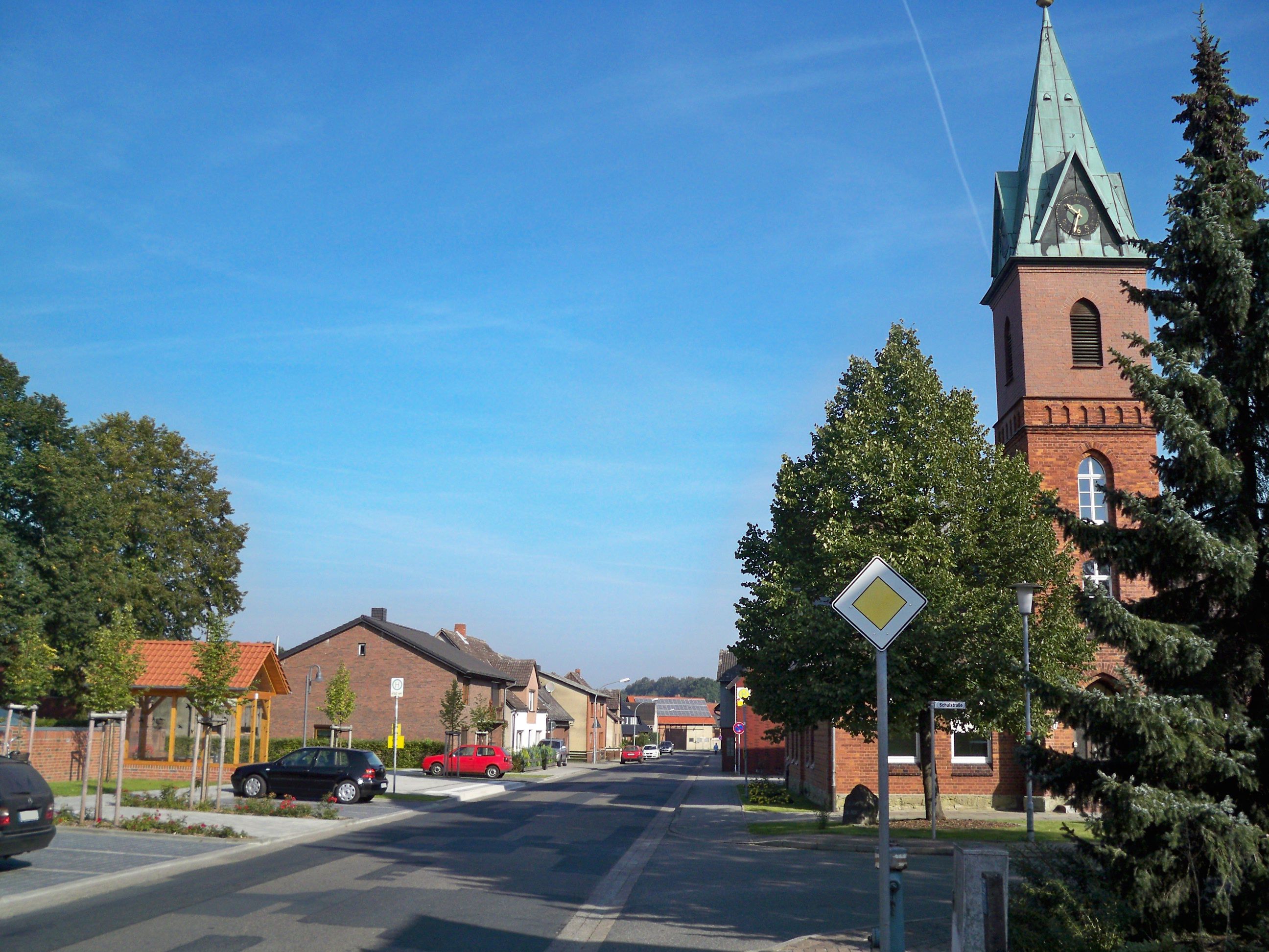 Bergfeld, Lower Saxony, Street view with school house tower